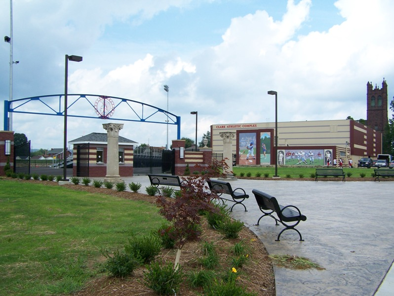 A photo of the murals by artist Herb Roe on the Clark Athletic Complex in Portsmouth, Ohio.